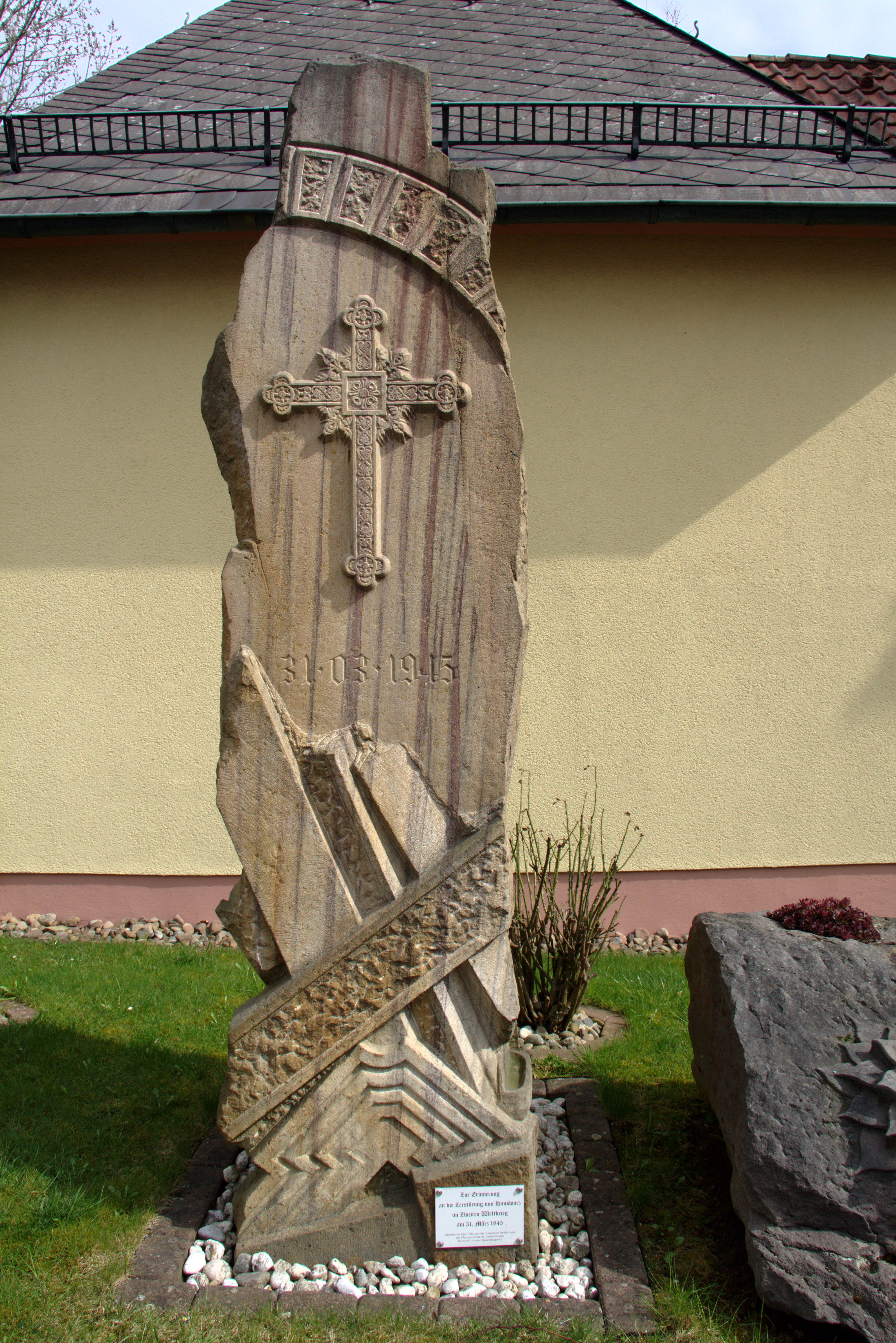 Memorial near Catholic Church in Hauswurz, Neuhof, Hesse, Germany